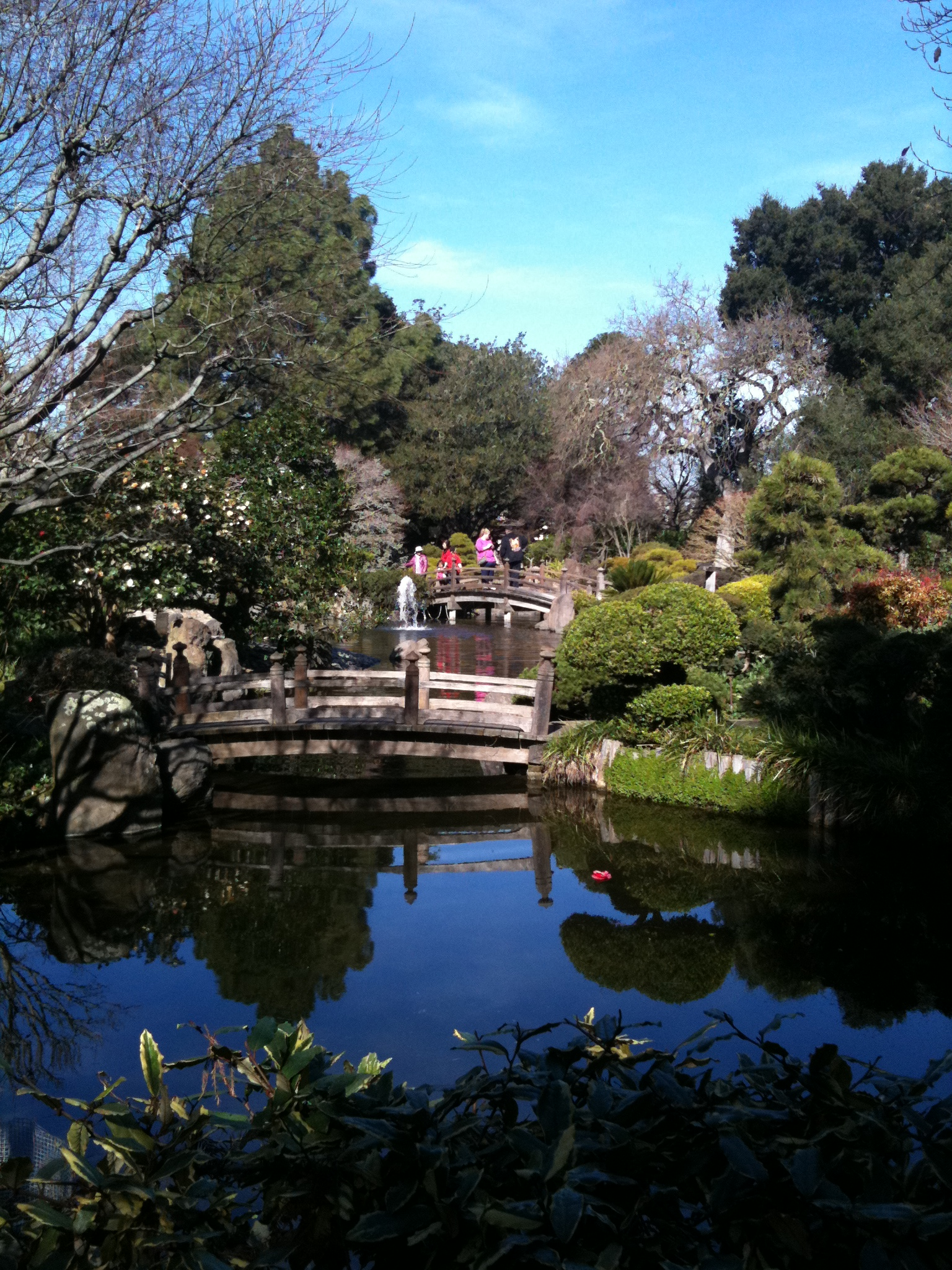 Japanese Tea Garden, with both bridges